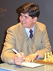 Peter Svidler, Chess Days 1998 at Dortmund